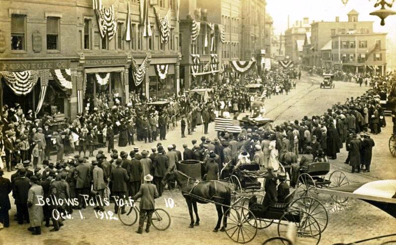 Awaiting parade for the Bellows Falls Fair, October 1, 1912, at Bellows Falls, Vermont